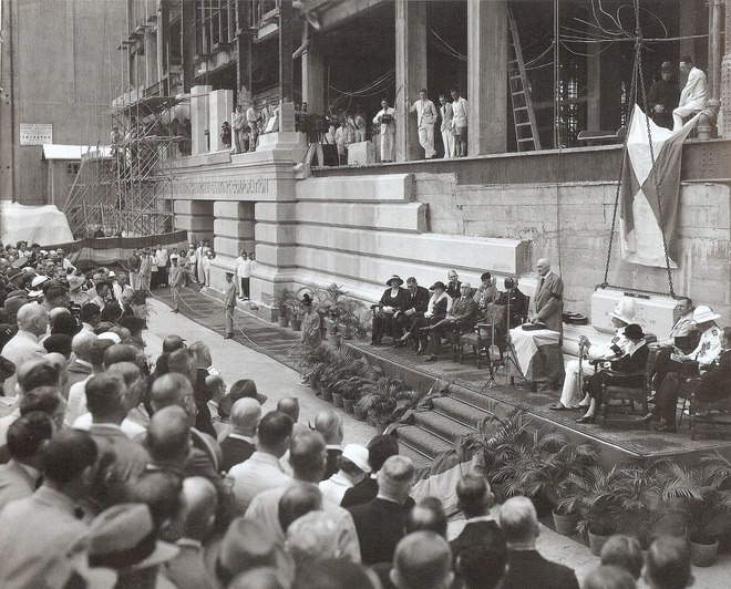 The foundation stone laying ceremony of the headquarters building of HSBC as presided by Sir William Peel, Governor of Hong Kong, on 17 October 1934.